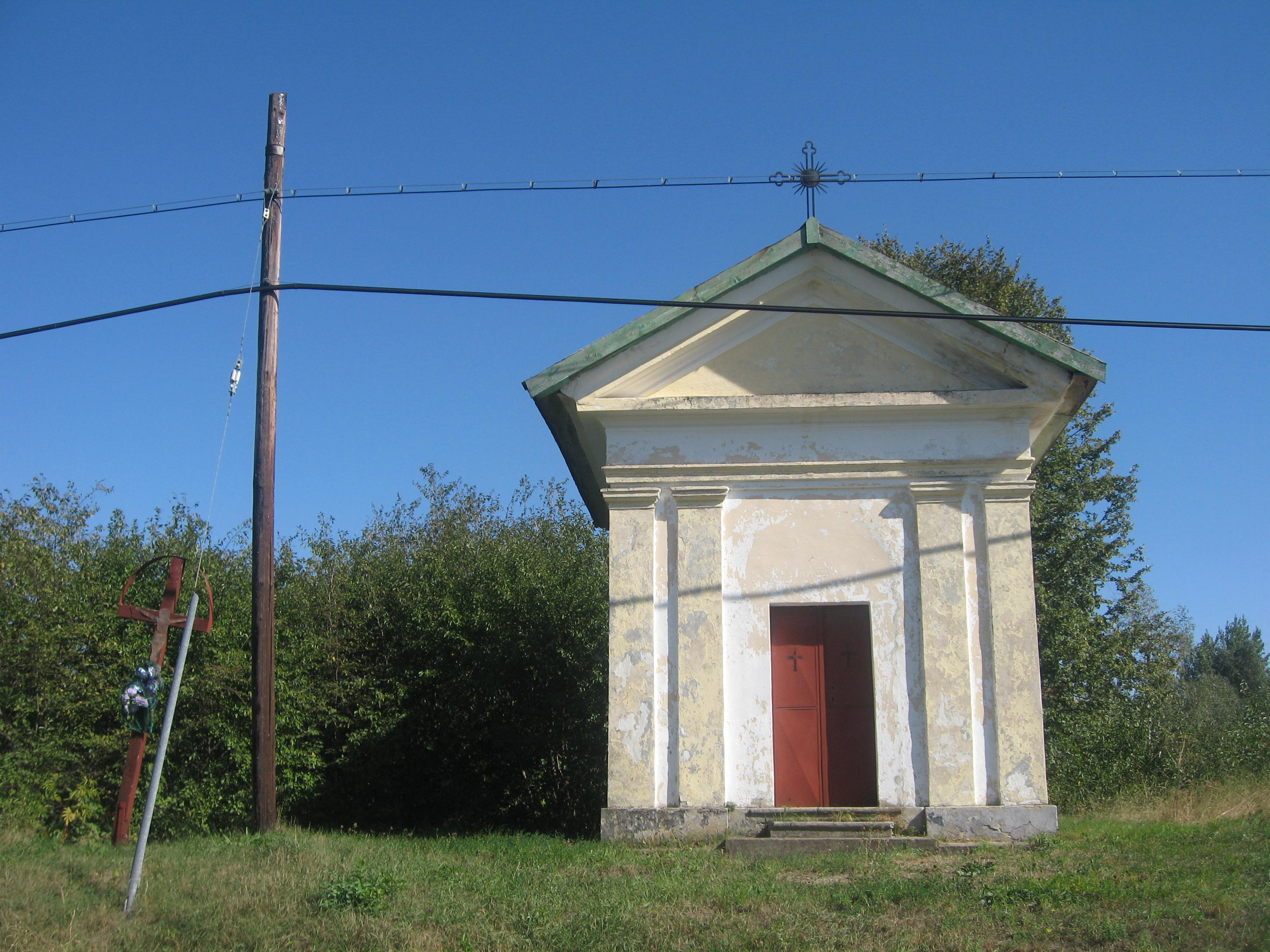 St. Mary Chapel in Siret, Romania, built in 1868